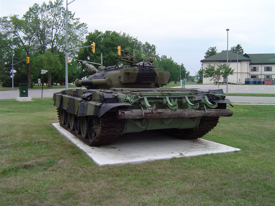 T-72 tank (donated by Germany, from the army of East Germany) Worthington Tank Museum at CFB Borden (Ontario, Canada).